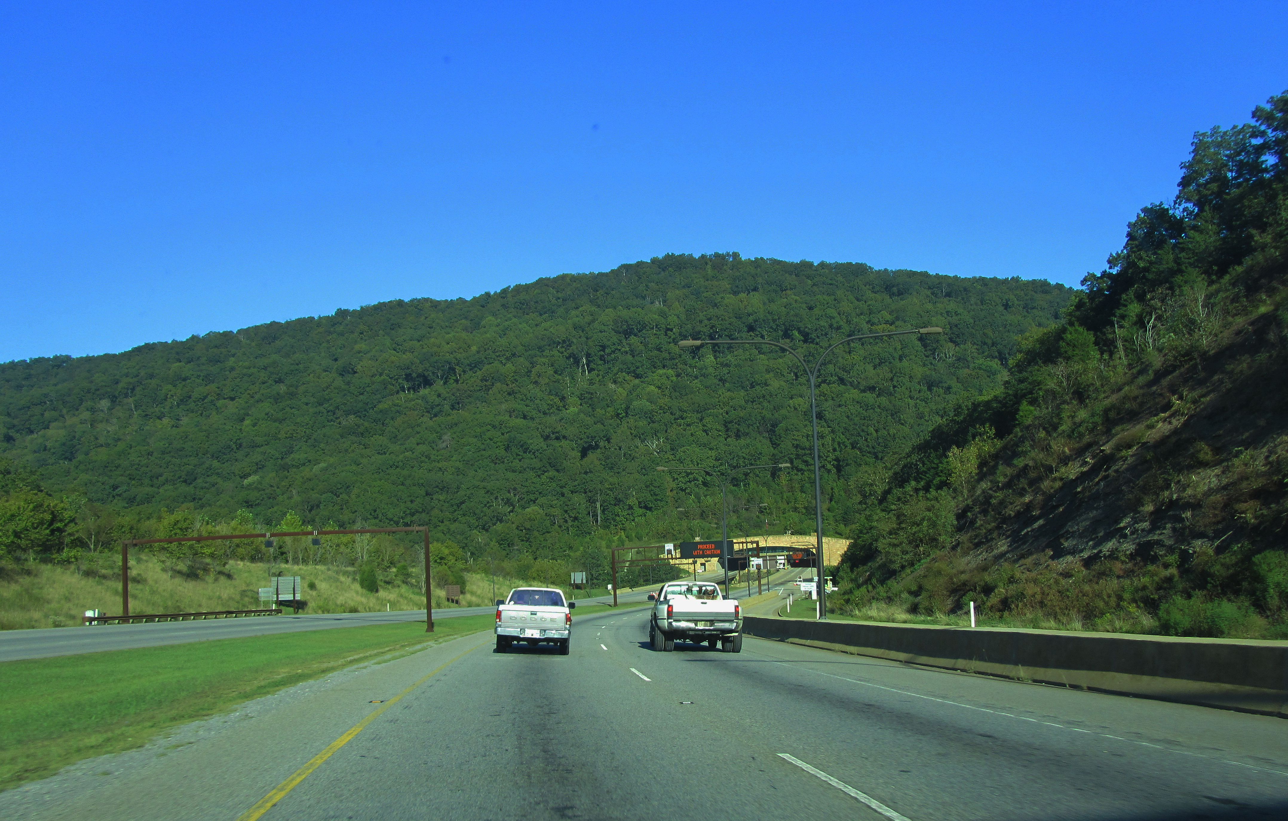 Approaching the Tennessee side entrance of the Cumberland Gap Tunnel